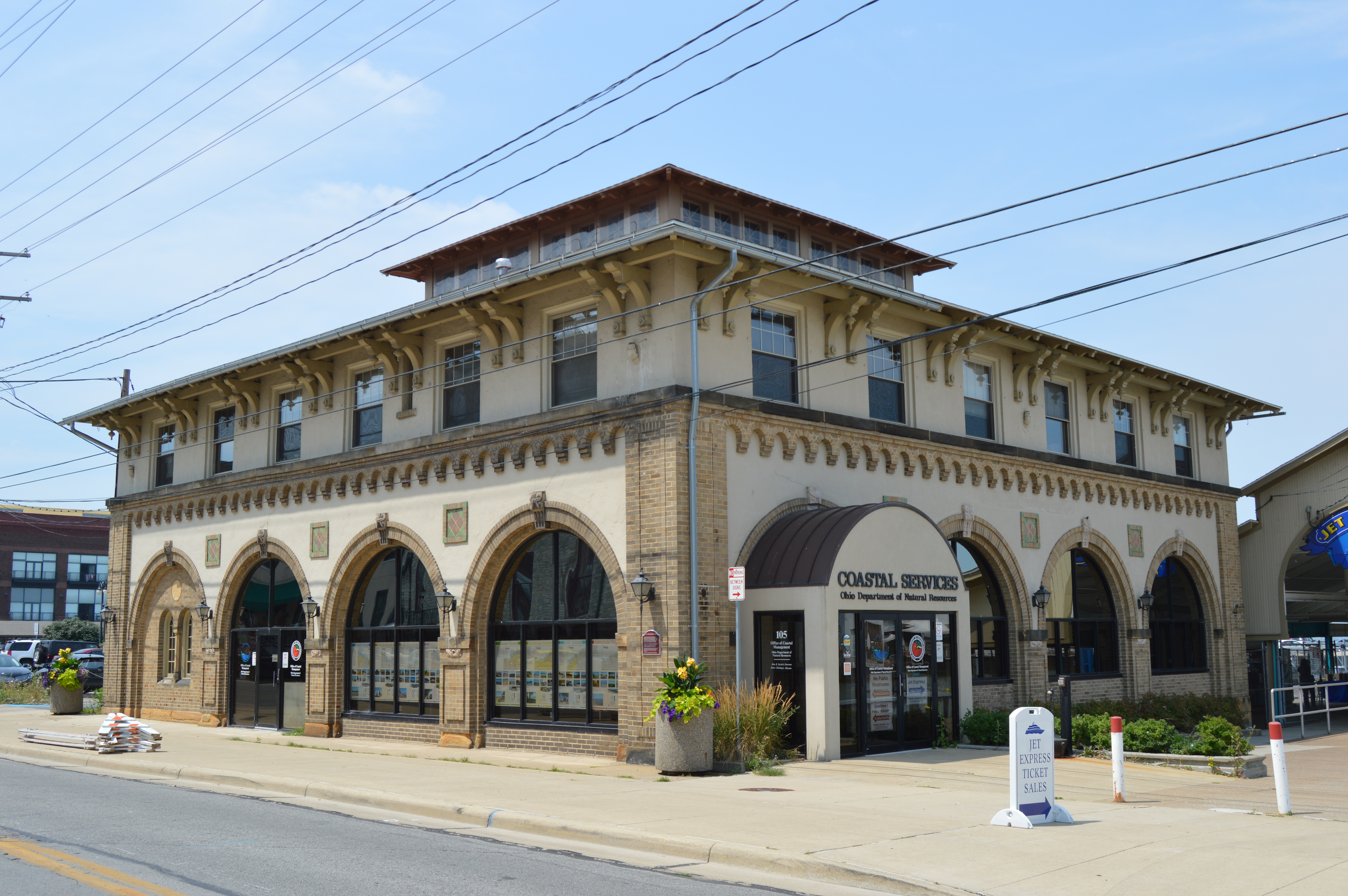 Front and eastern side of the Boeckling Building, located at 103-105 W. Shoreline Drive in Sandusky, Ohio, United States. Built in 1928, it is listed on the National Register of Historic Places.